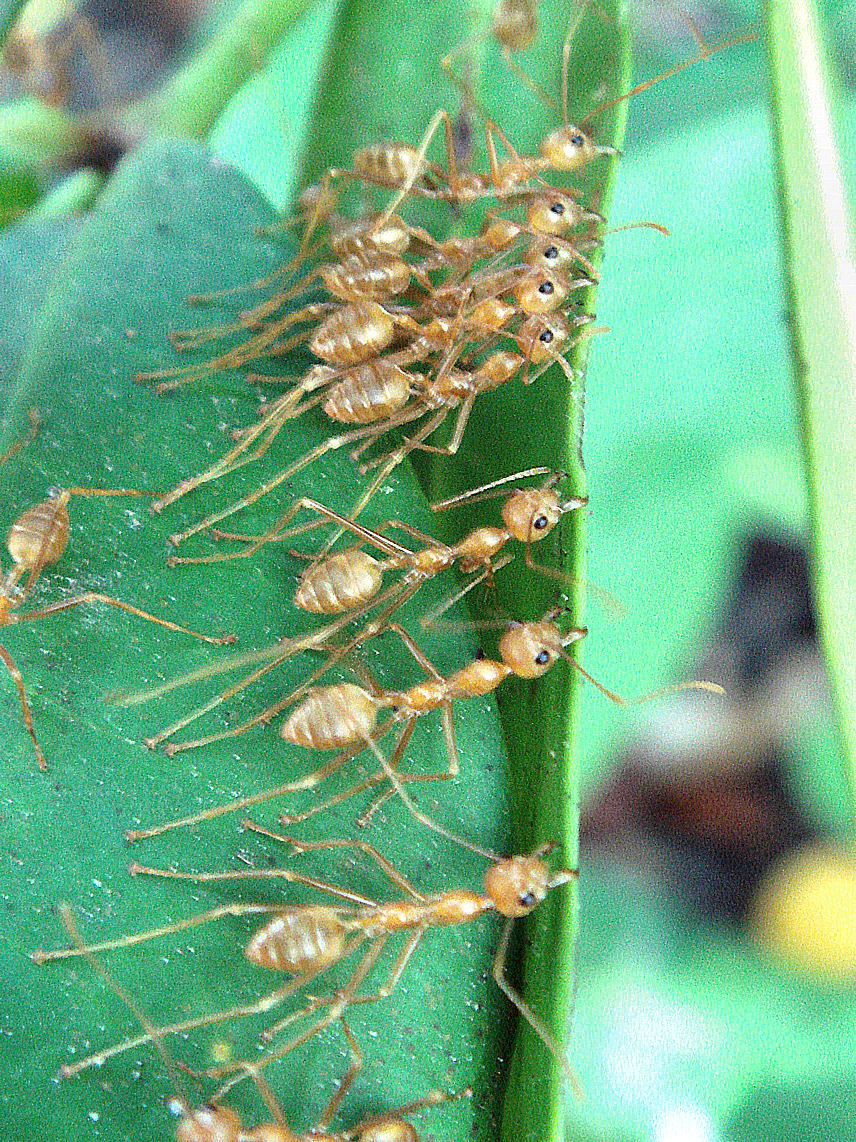 Weaver ants stitching a leave to make a nest.